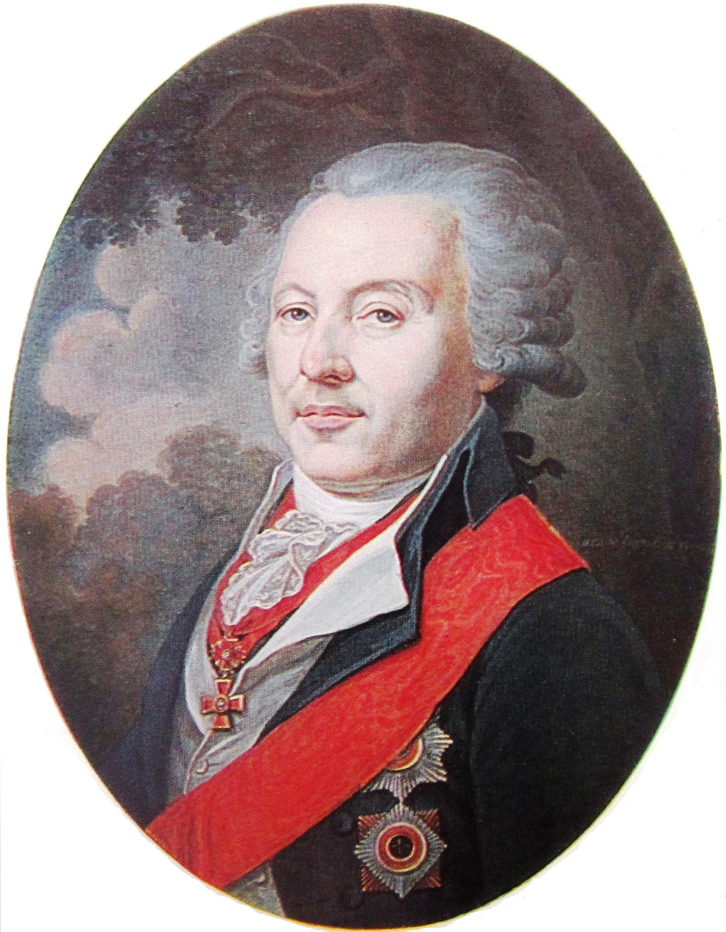 Portrait of Senator Alexey Vasilyev (1742—1807)